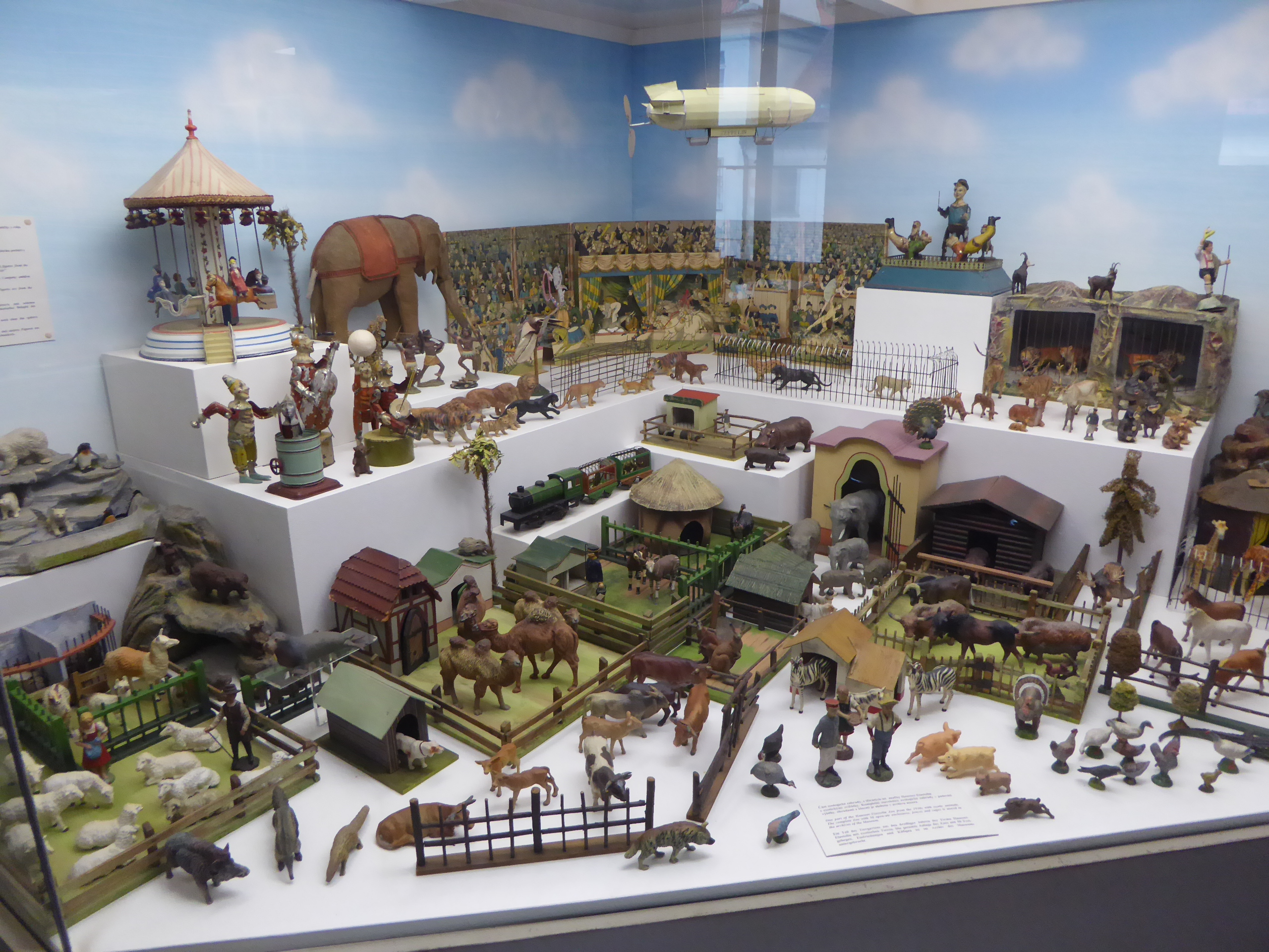 Animals of cirkus and zoological gardens in the collection of the Toy Museum in Prague.